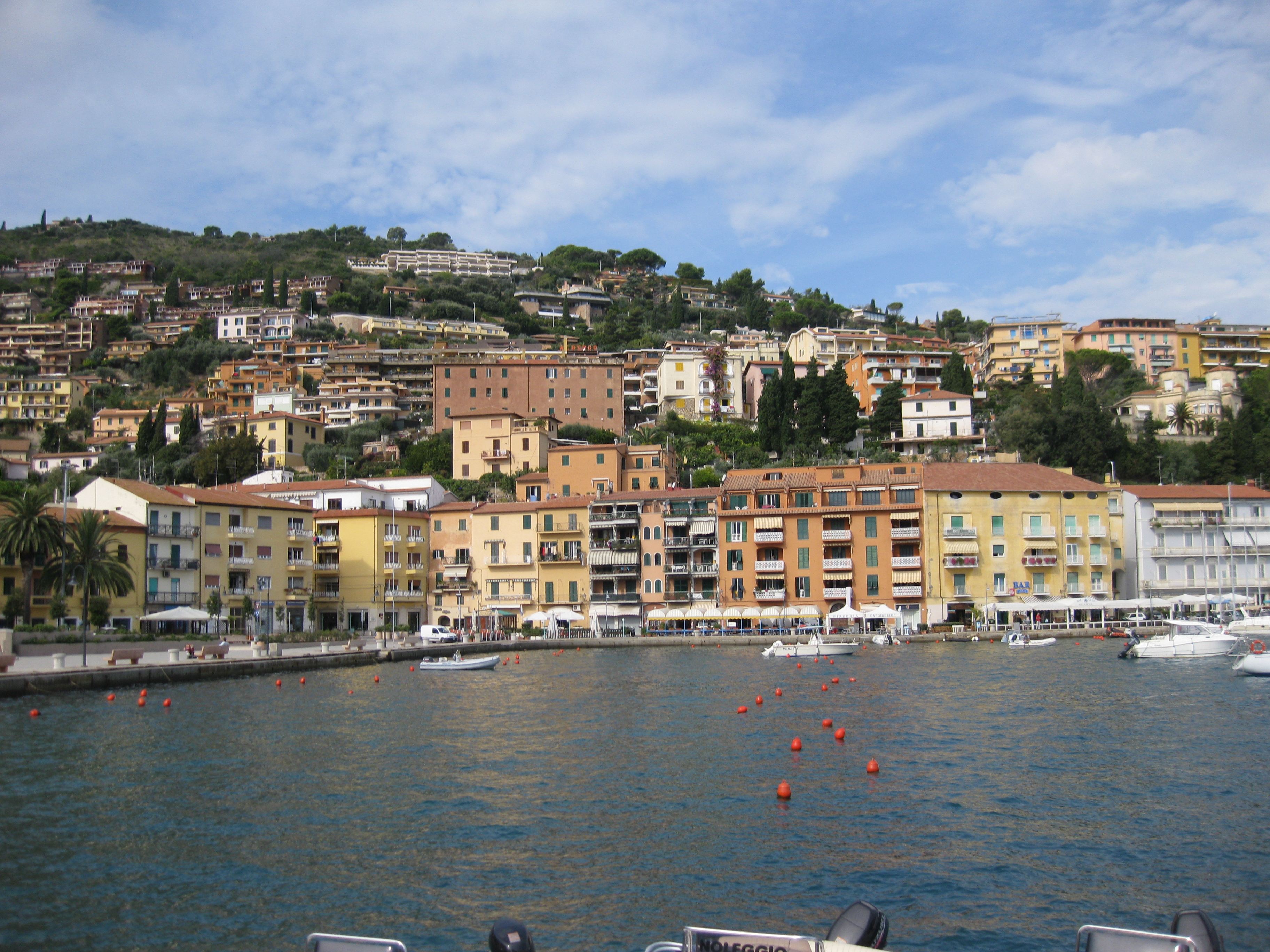 Porto Santo Stefano (Monte Argentario) ITALY